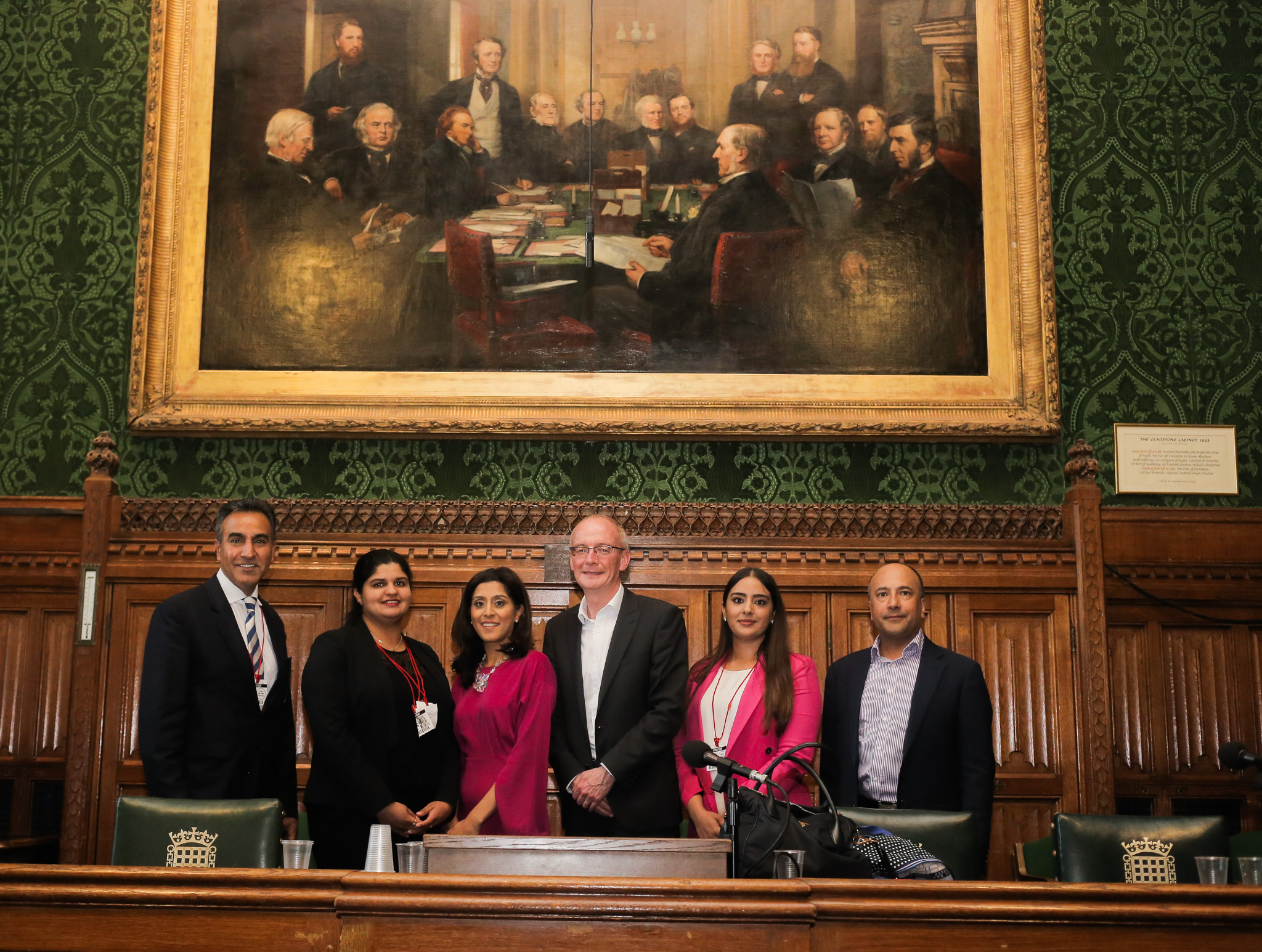 British Sikh Professionals speaking in Parliament